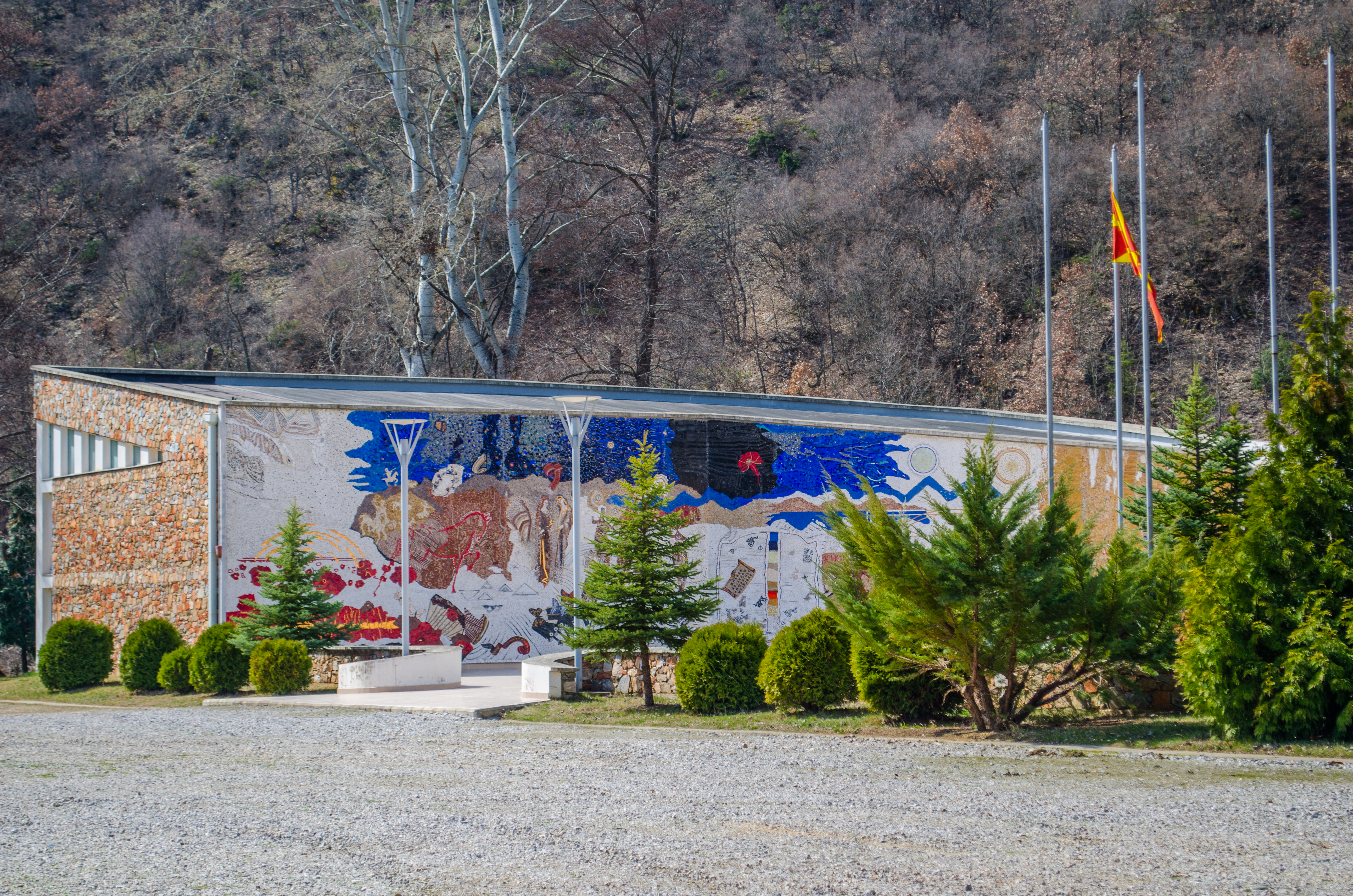 Memorial centar of ASNOM, Pelince